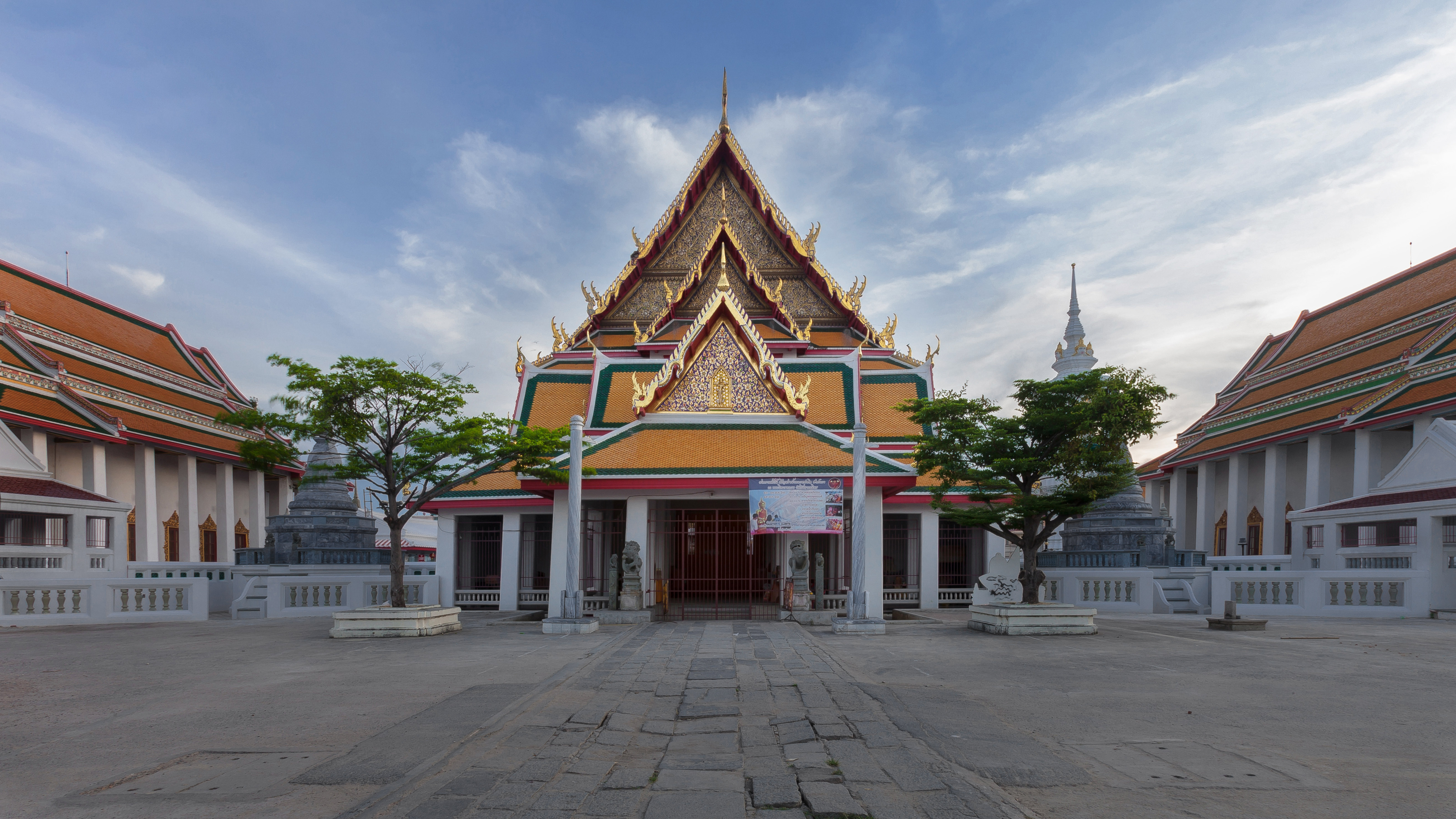 Entrance of Wat Kanlayanamit, Bangkok.